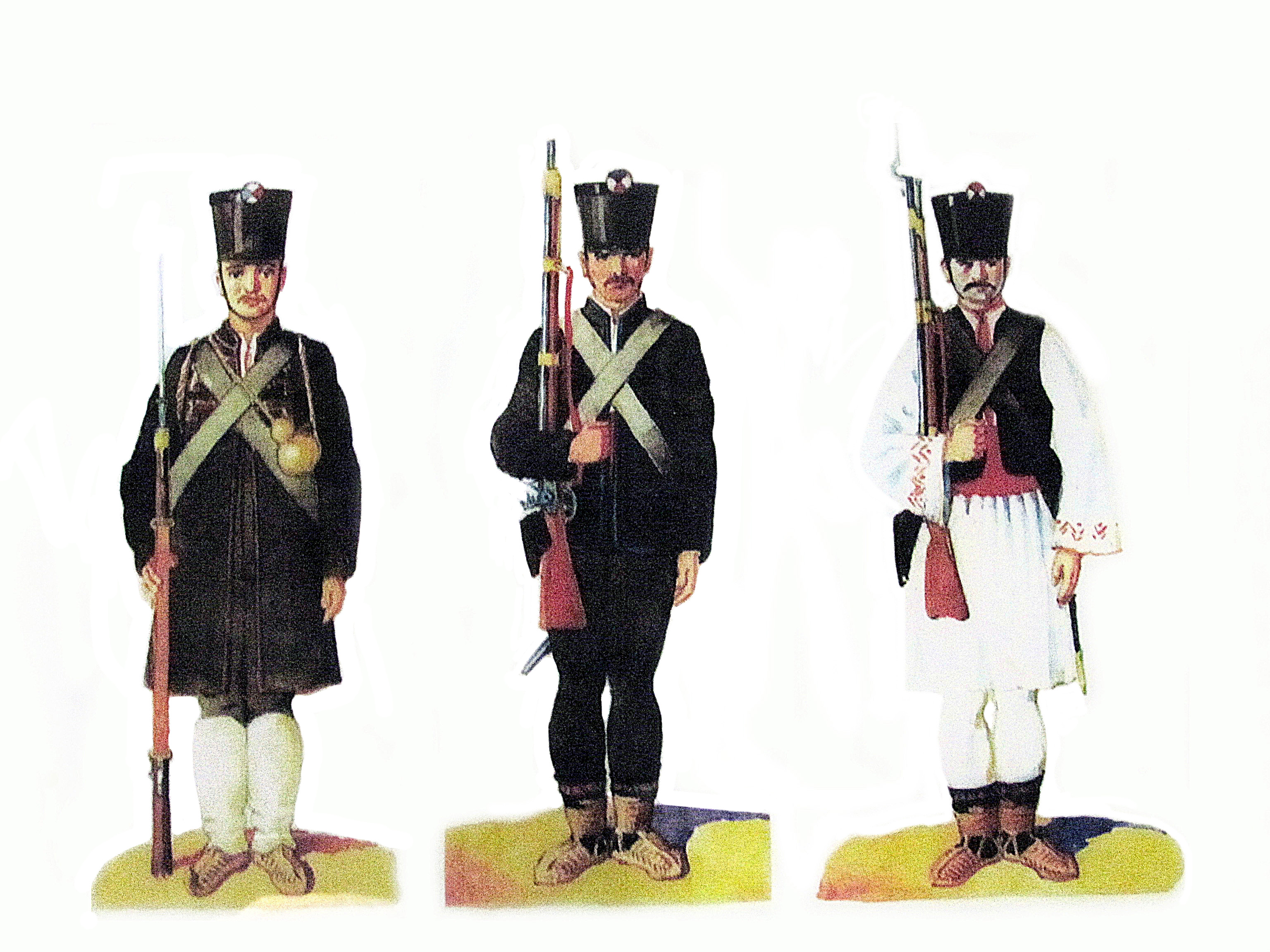 Uniforms of a Serbian soldier from First Uprising 1804